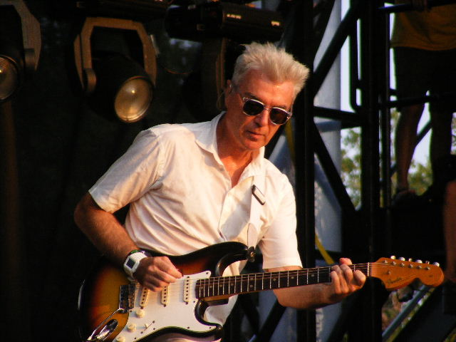 David Byrne playing at Austin City Limits 2008